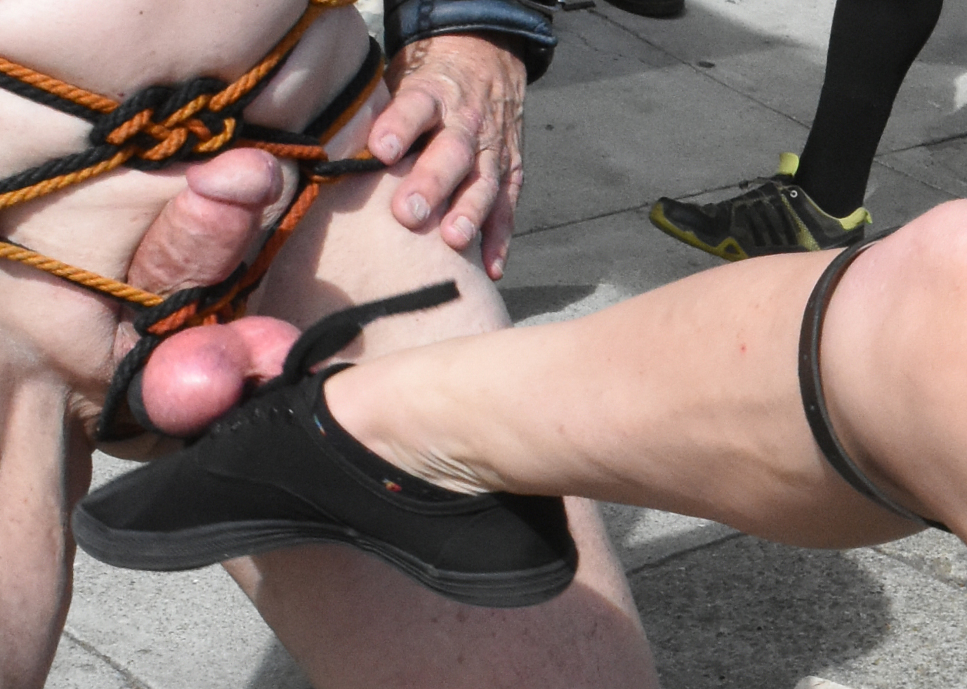 A woman kicking a man's testicles at Folsom Street Fair 2018.